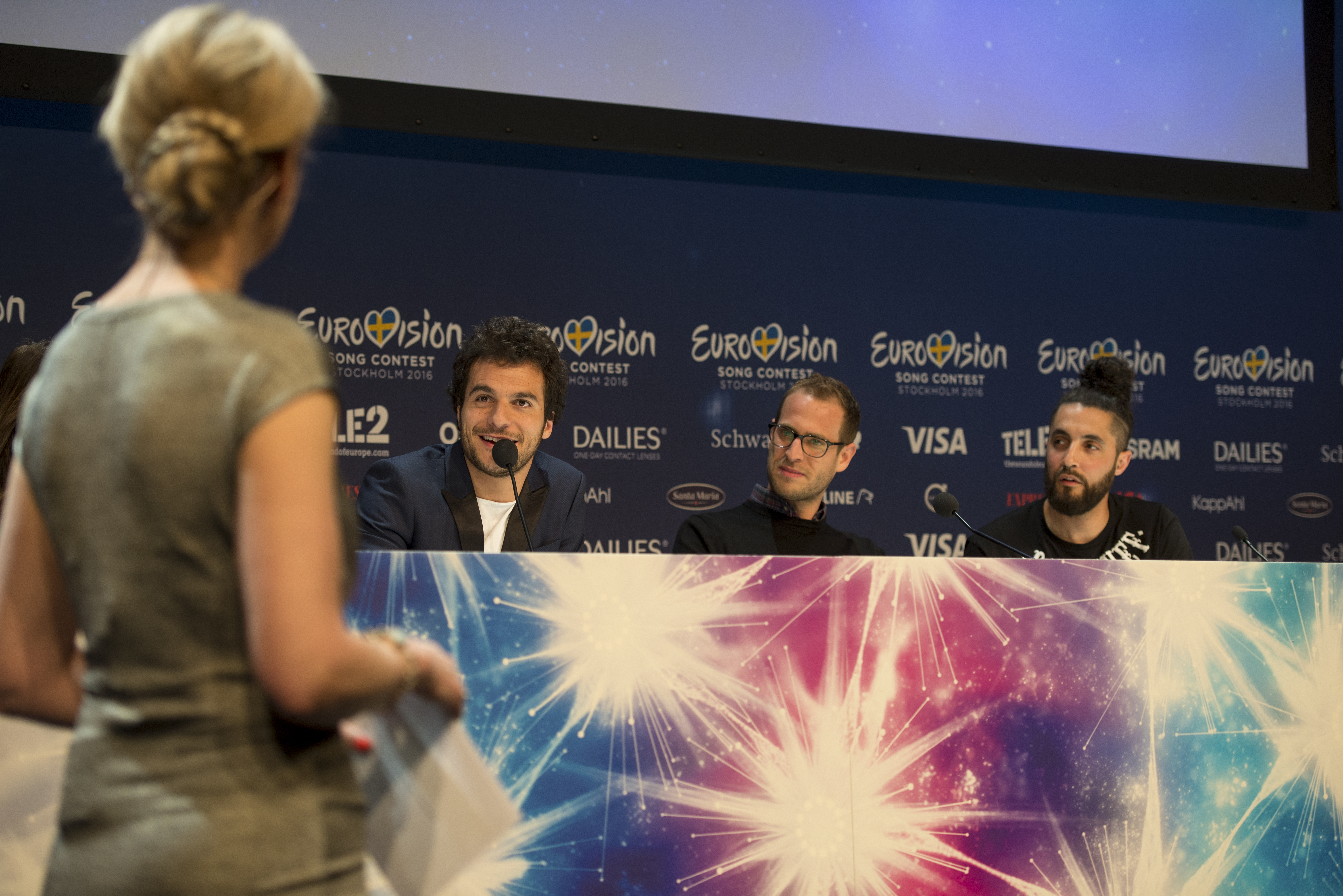 Amir at a Meet & Greet during the Eurovision Song Contest 2016 in Stockholm. (Help translate this text)